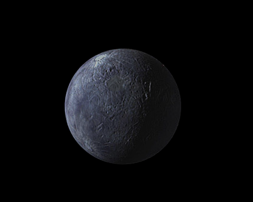 TNO (90482) Orcus